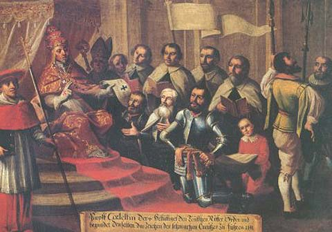 Teutonic Order and Pope Celestine III